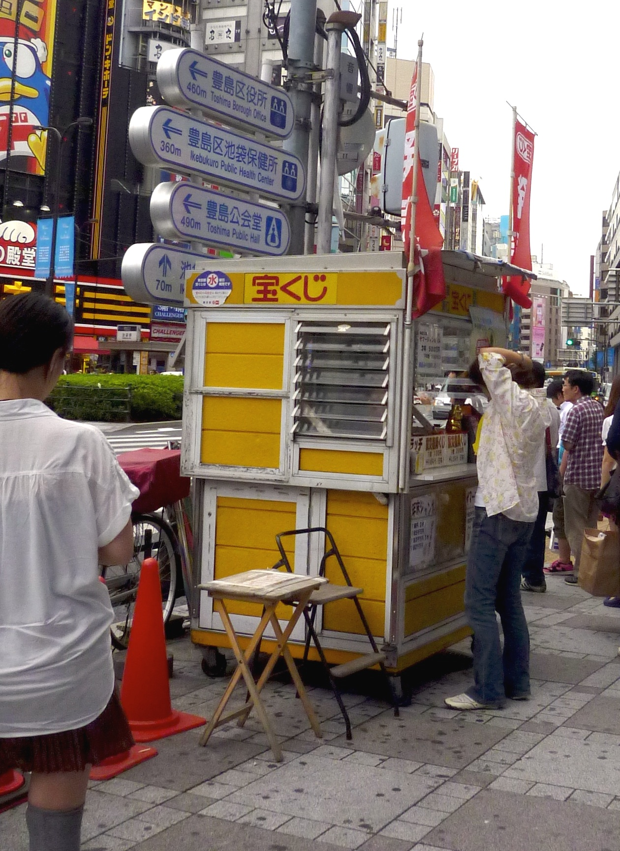 In Japan, takarakuji (宝くじ), i.e., lotteries, are held by prefectures or large cities on a regular basis all throughout the calendar year. This small street shop is in Ikebukuro.